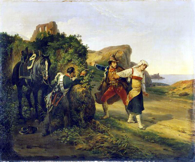 the brigand betrayed Ciociaria